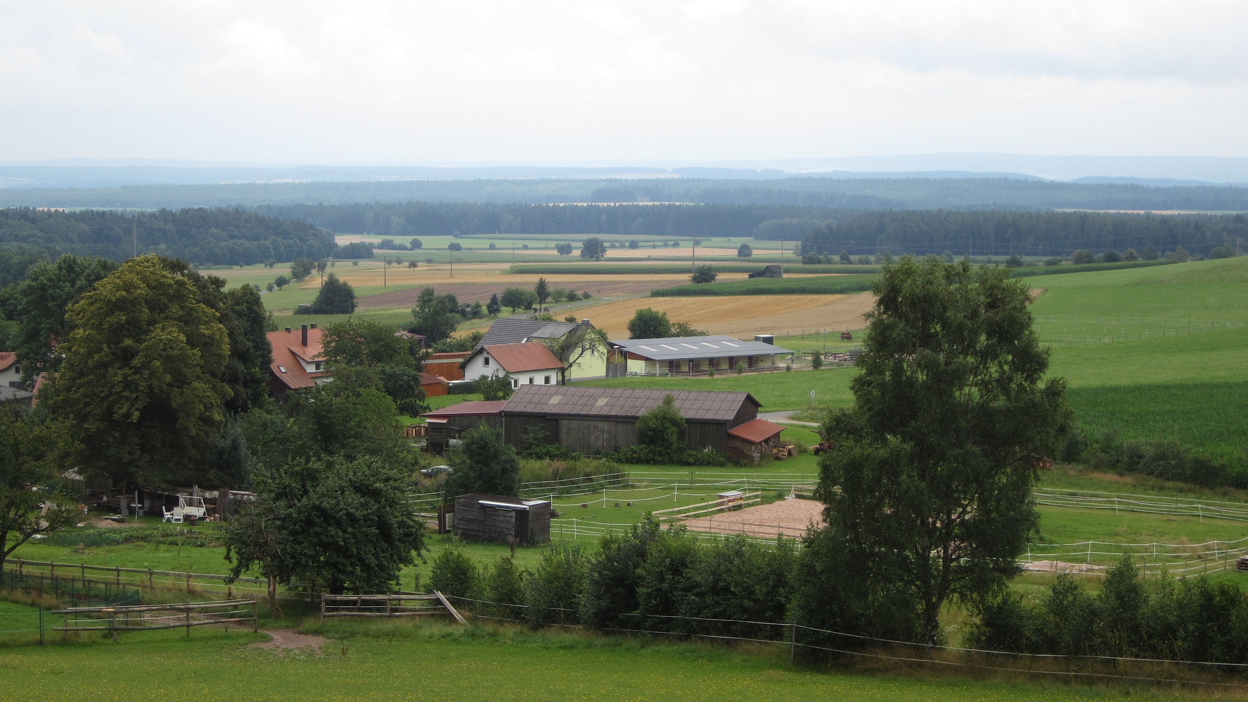 View from Rindschenberg towards South on Muckenreuth and the Rhine-Danube drainage divide.